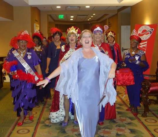 The Royal Court of Queens Processional at a recent conference. Other information Cropped from the original.